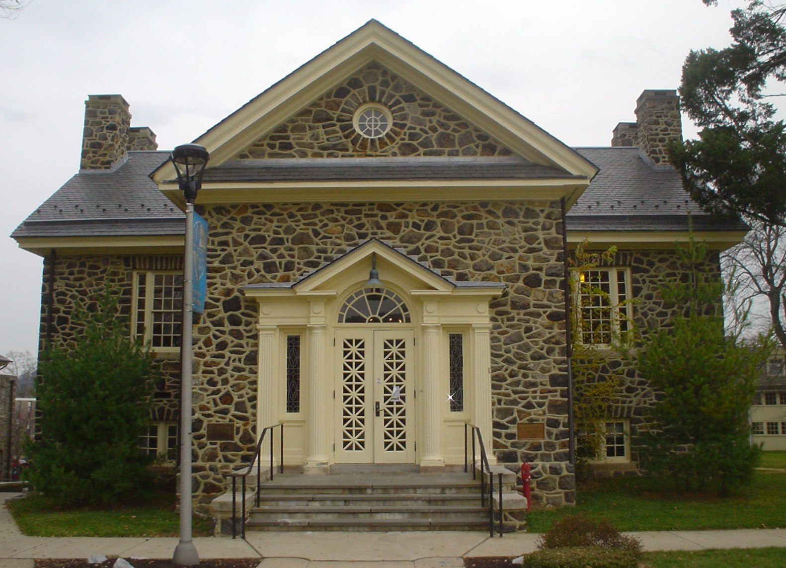 Carnegie Library on Cheyney University (PA) Campus quad, built 1909.